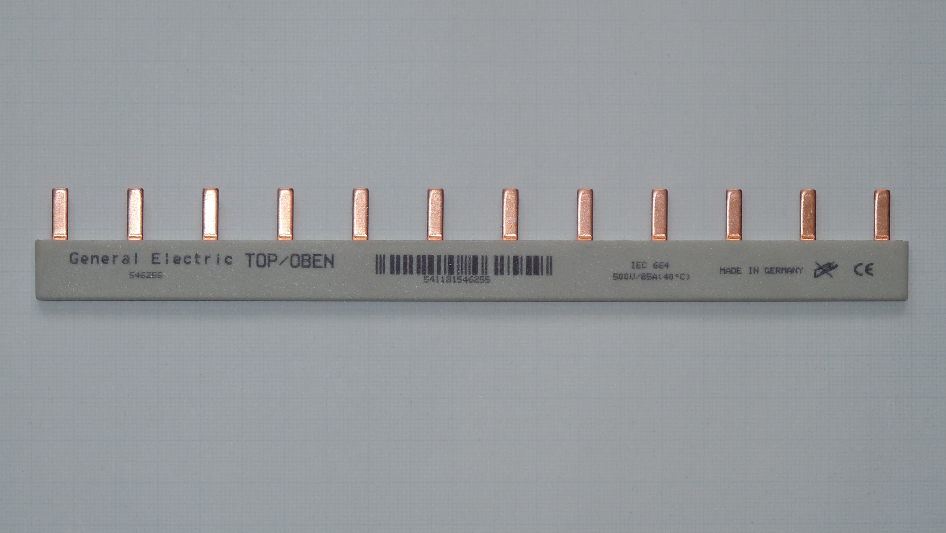 ultra slim busbar for modular circuit breakers